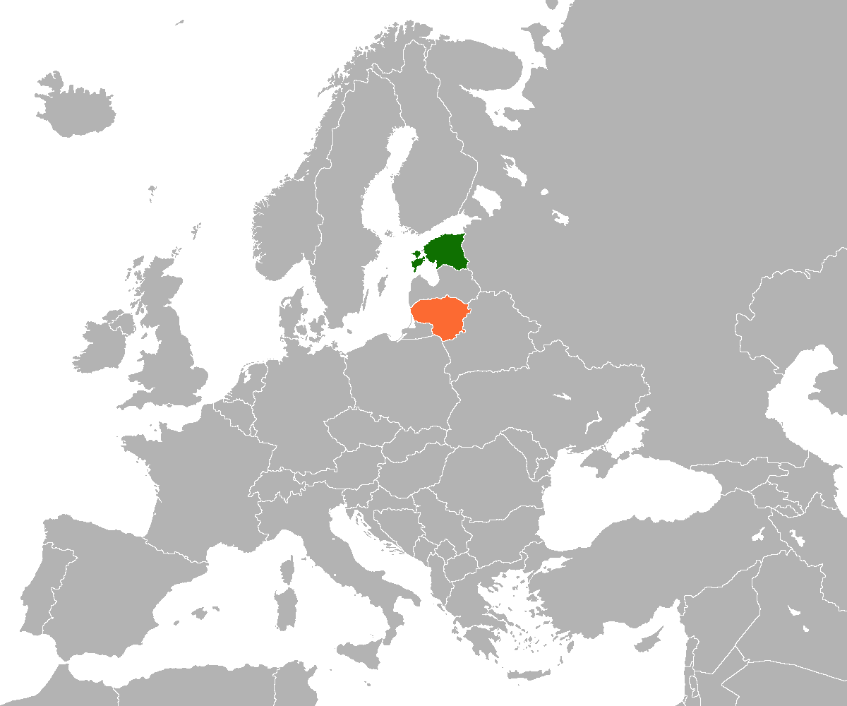 Map showing the locations of both Estonia and Lithuania